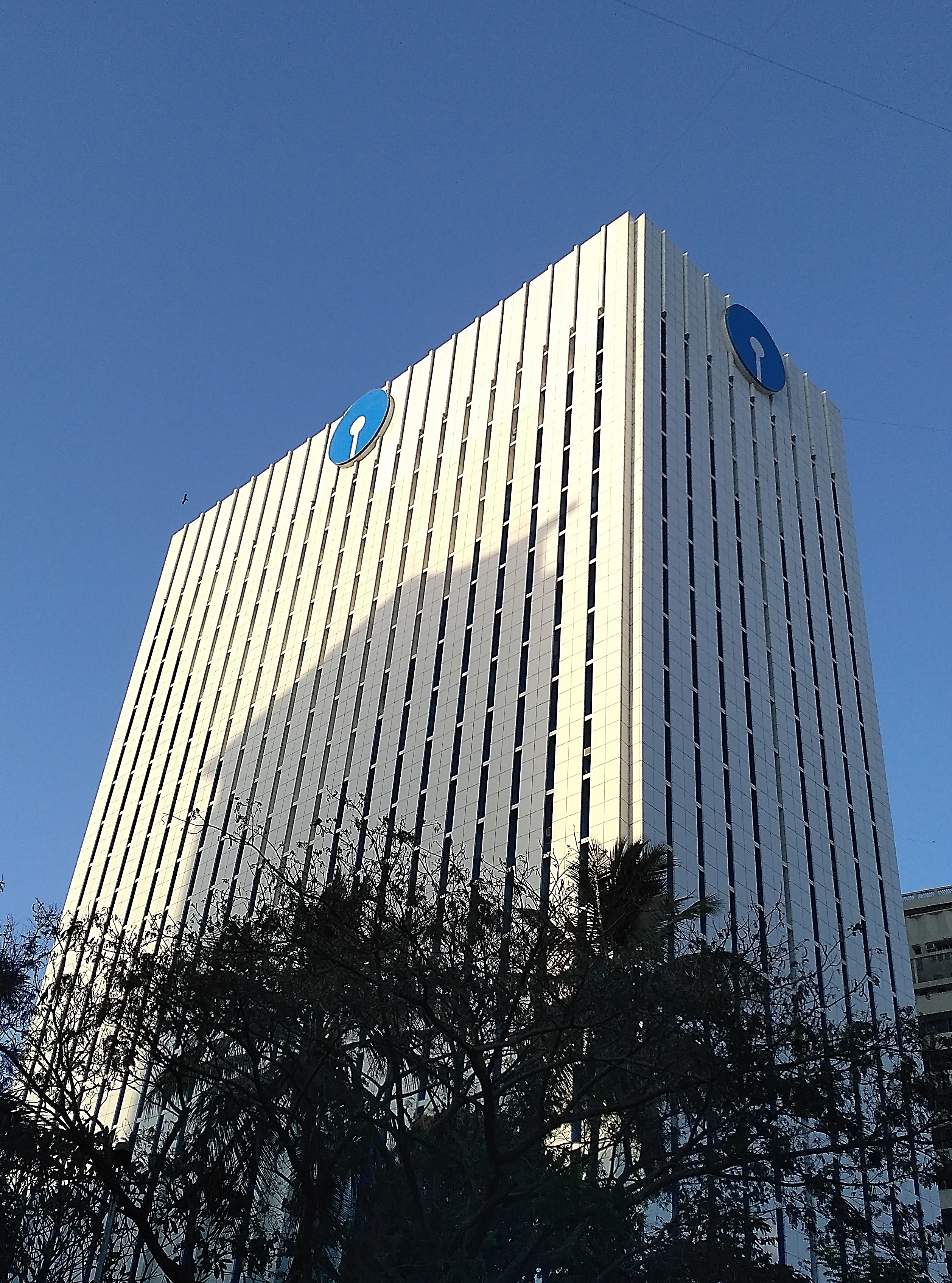 The State Bank of India headquarters at Nariman Point in Mumbai